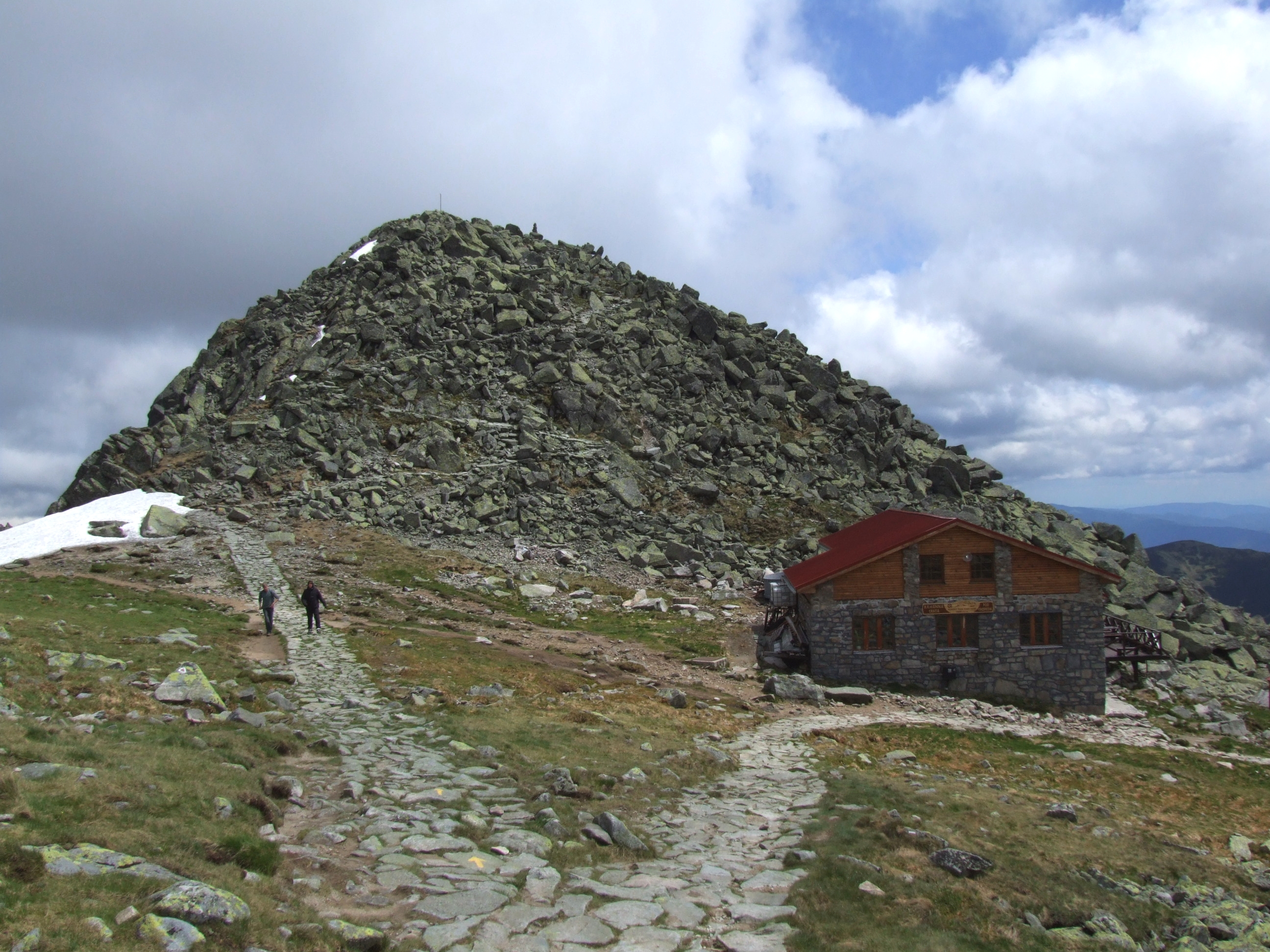 Chopok peak and Kamenná chata hostel